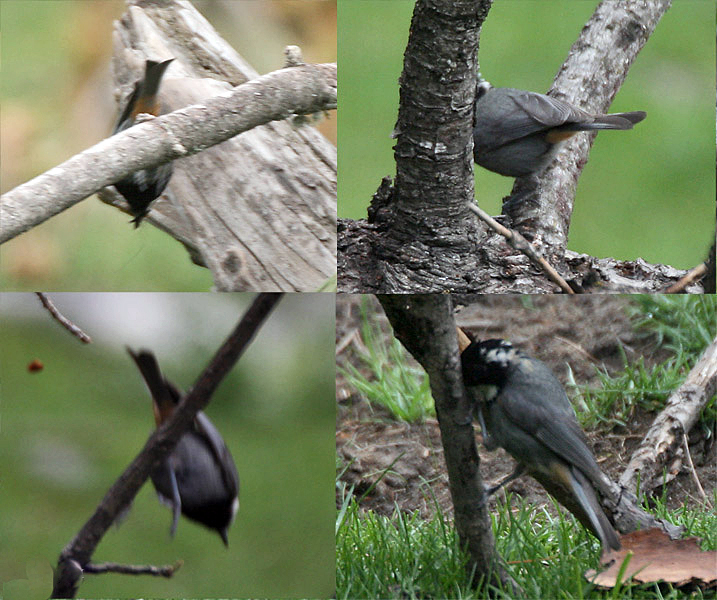 Rufous-naped Tit Periparus rufonuchalis in Kullu District of Himachal Pradesh, India.